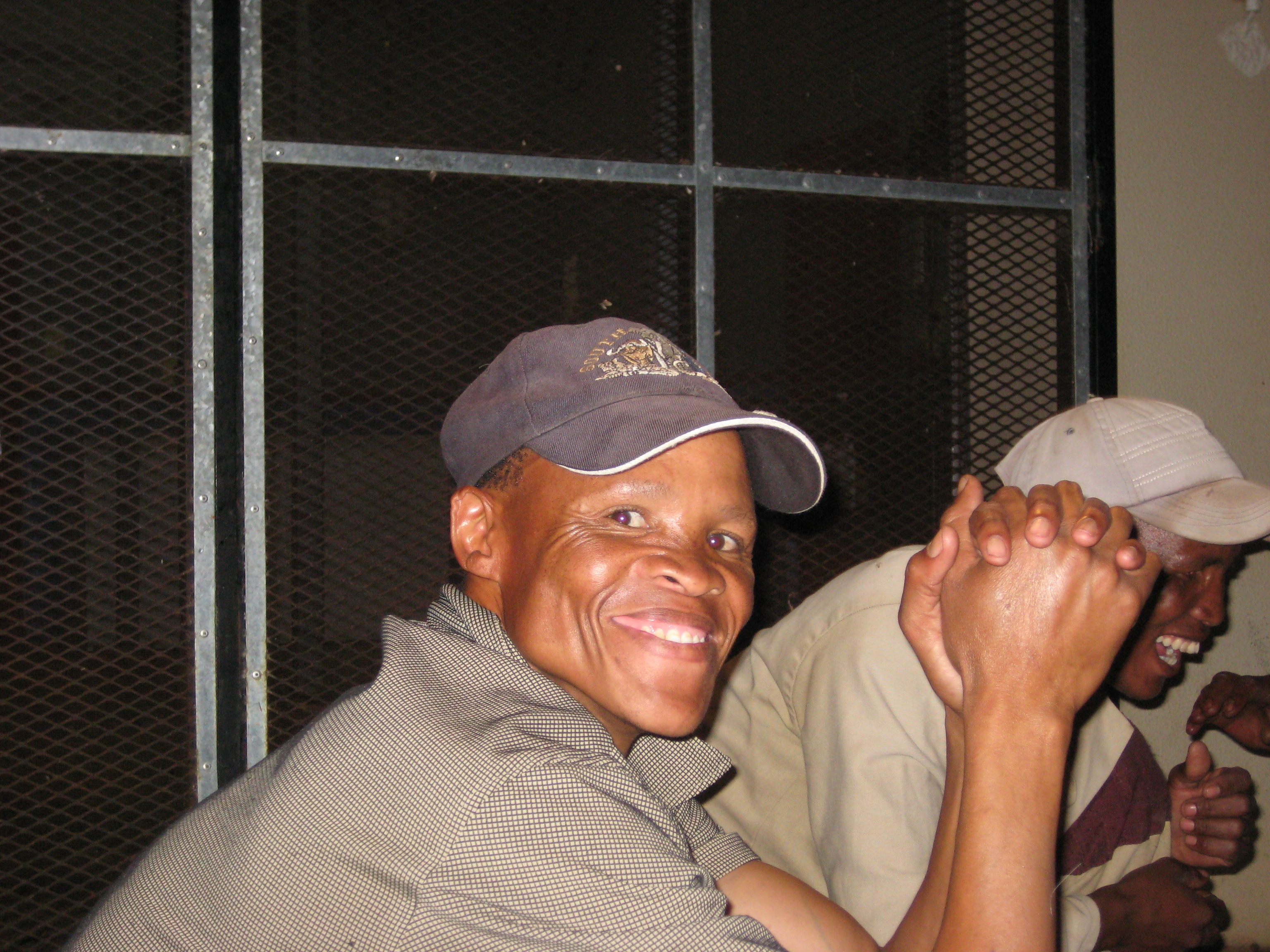 Young Bushman, Namibia